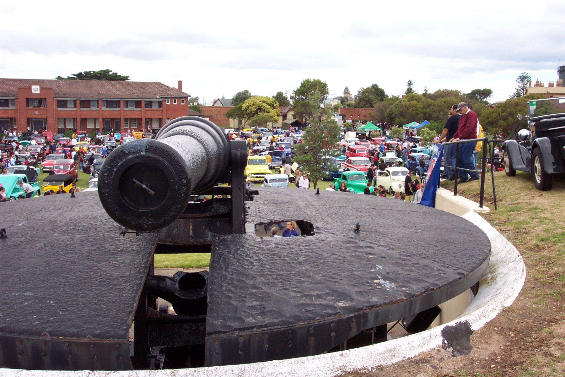 Photograph of 8-inch 12 ton BL Gun on Hydro Pneumatic Mounting, Fort Queenscliff Victoria, Australia. Gun dated 1885 weighing 11-19-0-6. Gun and mounting was originally at South Channel Fort.